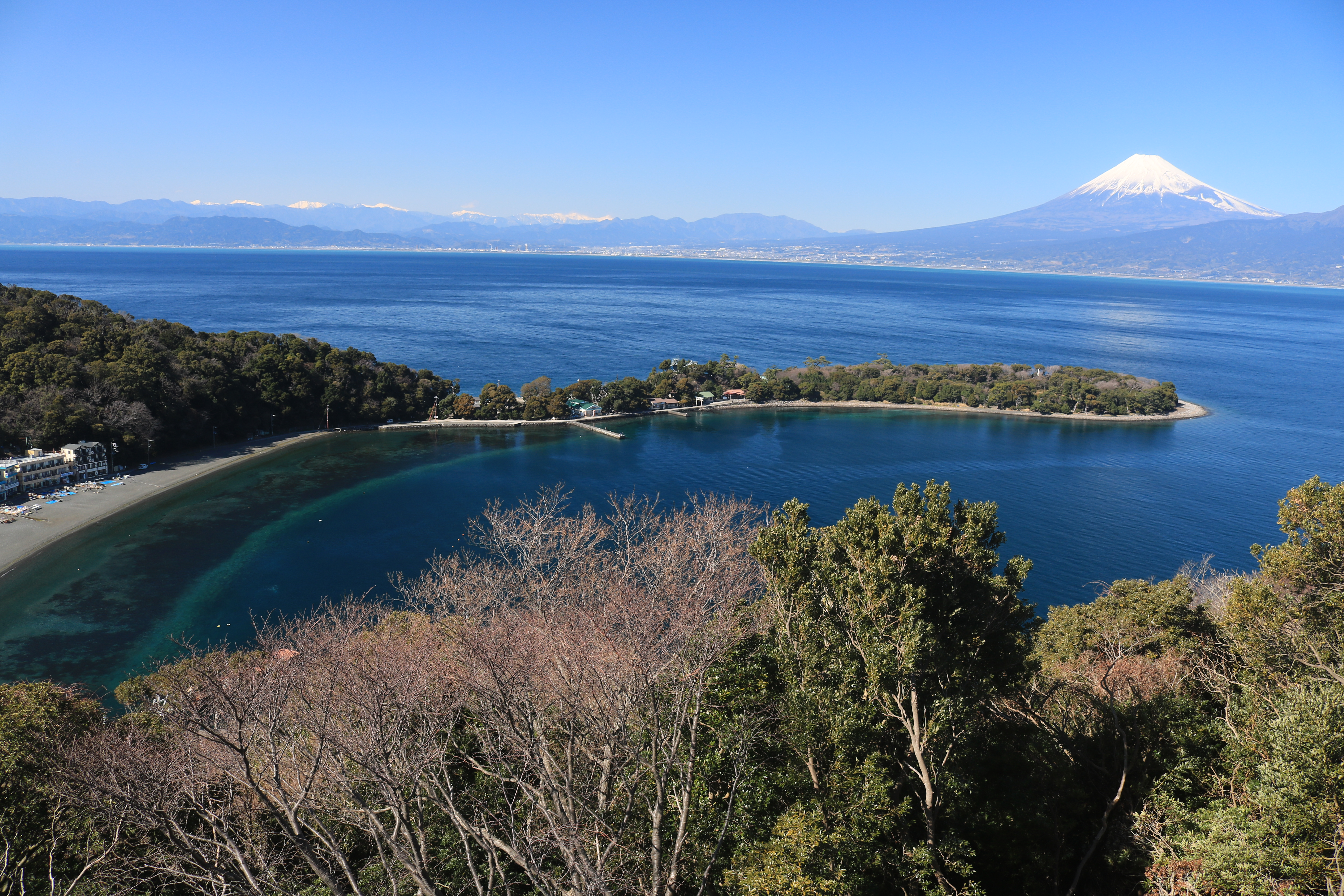 Cape Ose (Ōsezaki), Suruga Bay Akaishi Mountains and Mount Fuji in Shizuoka Prefecture, Japan.